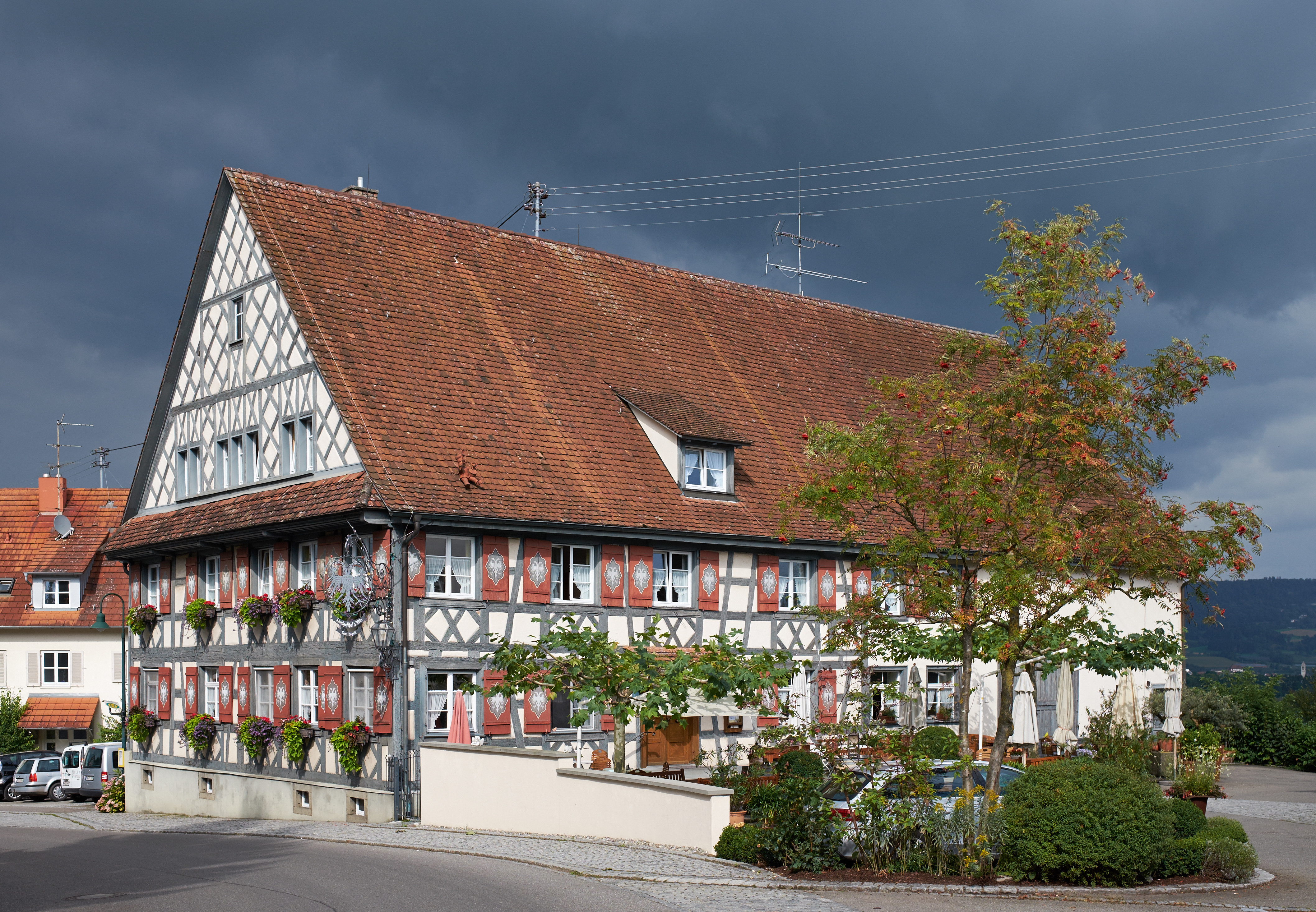 Inn Landgasthof Adler, Überlingen-Lippertsreute, district Bodenseekreis, Baden-Württemberg, Germany